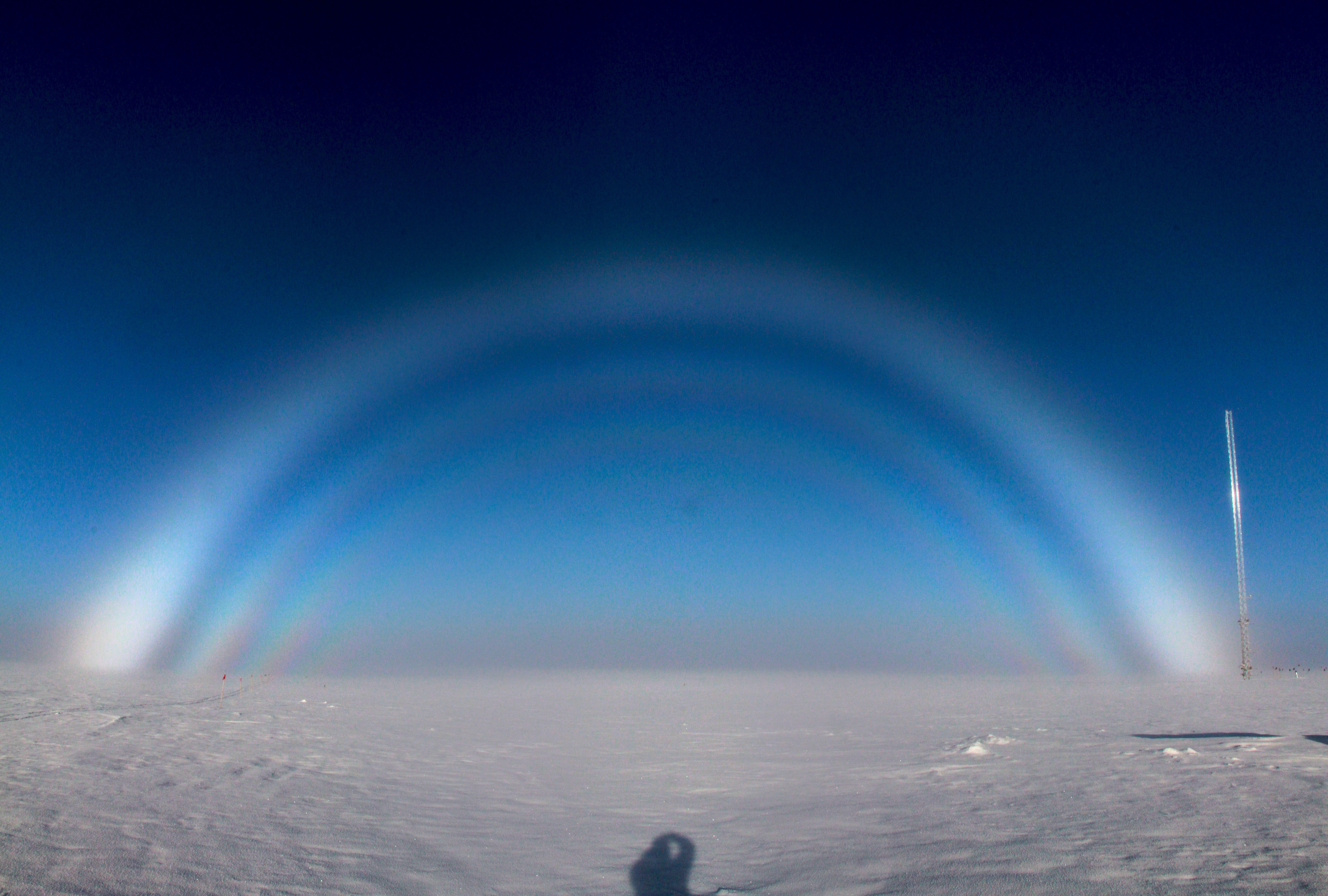 Uploader's description: Fogbow over the atmospheric research tower at Summit Station Greenland. The fog layer is about 60 feet thick. Liquid fog droplets in the pristine air finally freeze when they settle and make contact with the snow surface. Photo: Christopher Cox, CIRES/University of Colorado.